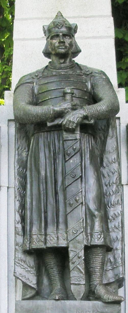 Statue of Mieszko I., duke of Cieszyn in Cieszyn. Sculpted by Jan Raszka.